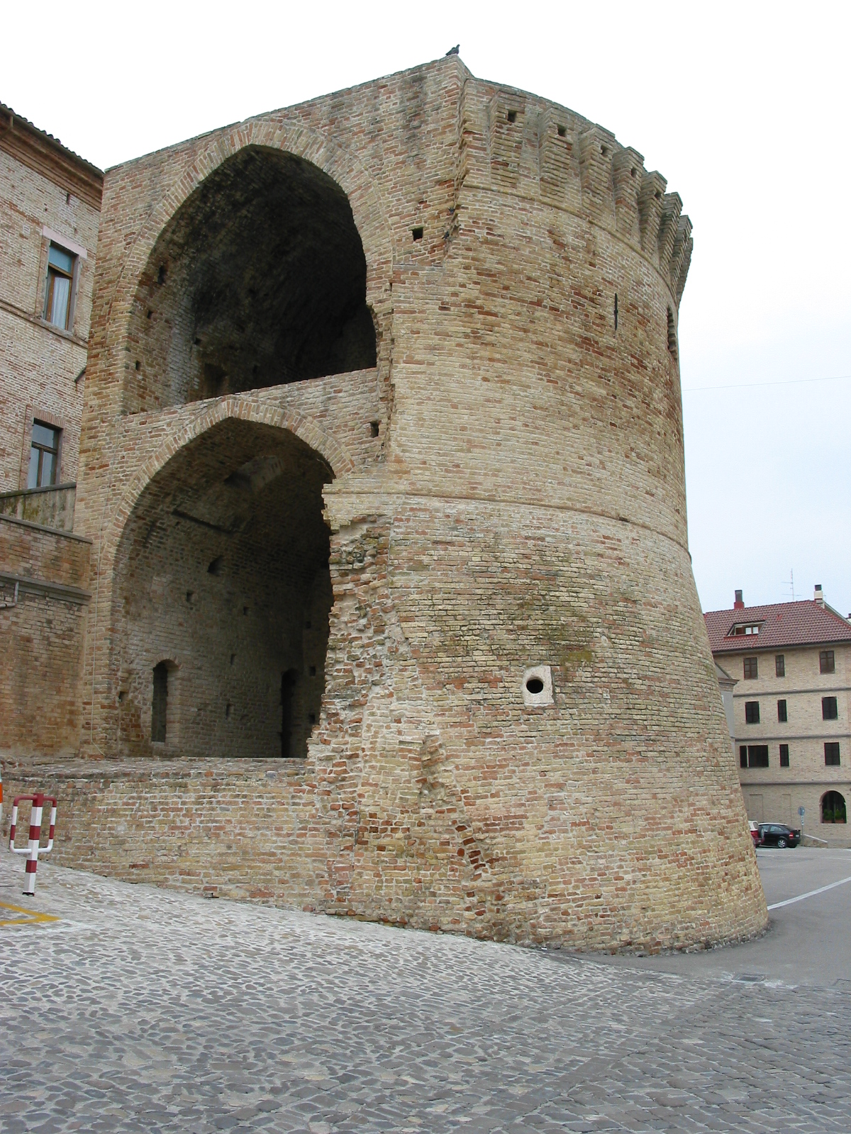 Offida, Marche, Italiaott.1.2003 Offida Fortress Tower